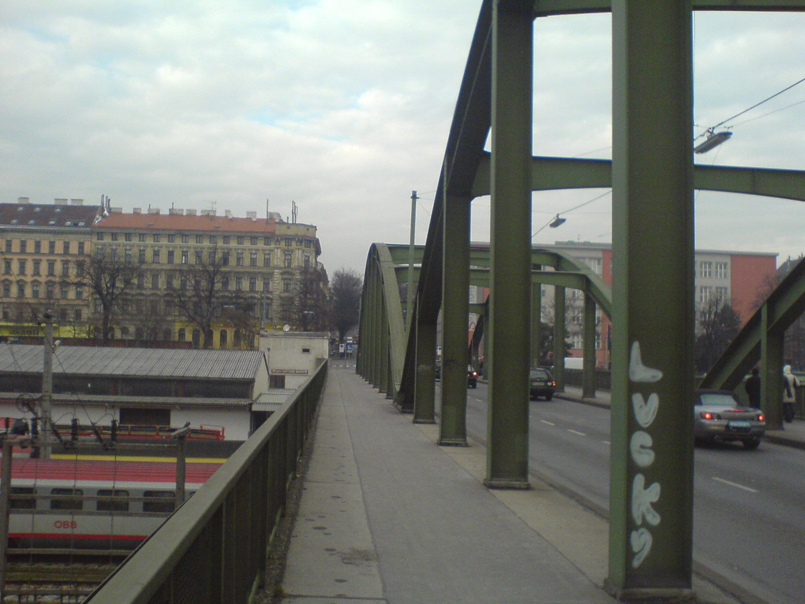 Schmelzbruecke in Vienna, crossing the Austrian Western Railway